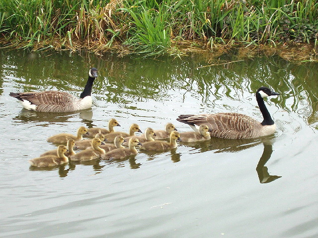 Geese and goslings swim in V-formation. The Canada geese had shepherded the thirteen goslings from the bank into the canal and escorted them in a close convoy. See earlier photos 429626 and 429637.